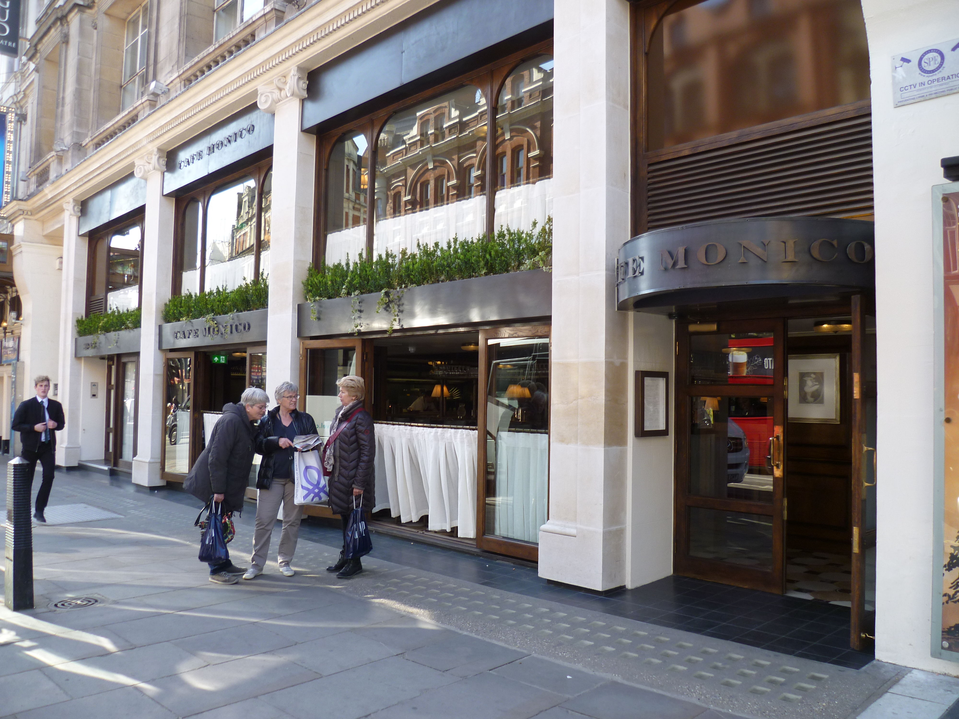 London